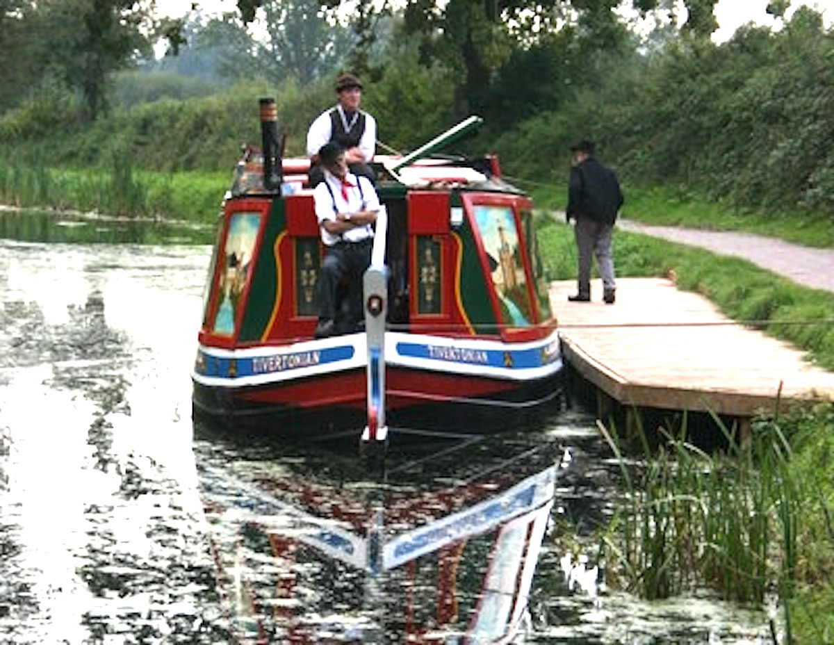 This is an image of a traditional horse-drawn widebeam boat that once was worked on the UK's wide canals.